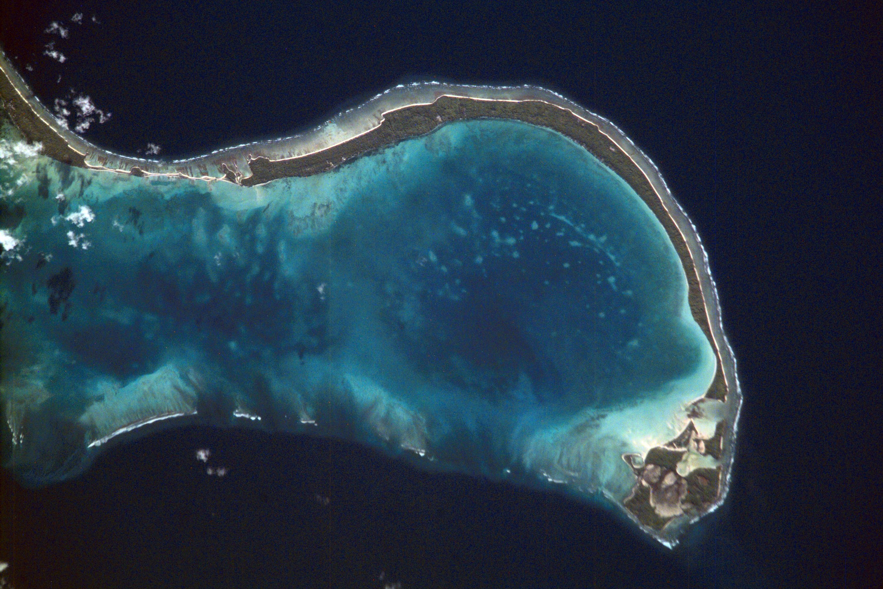 NASA astronaut image of Onotoa Atoll, Gilbert Islands, Kiribati